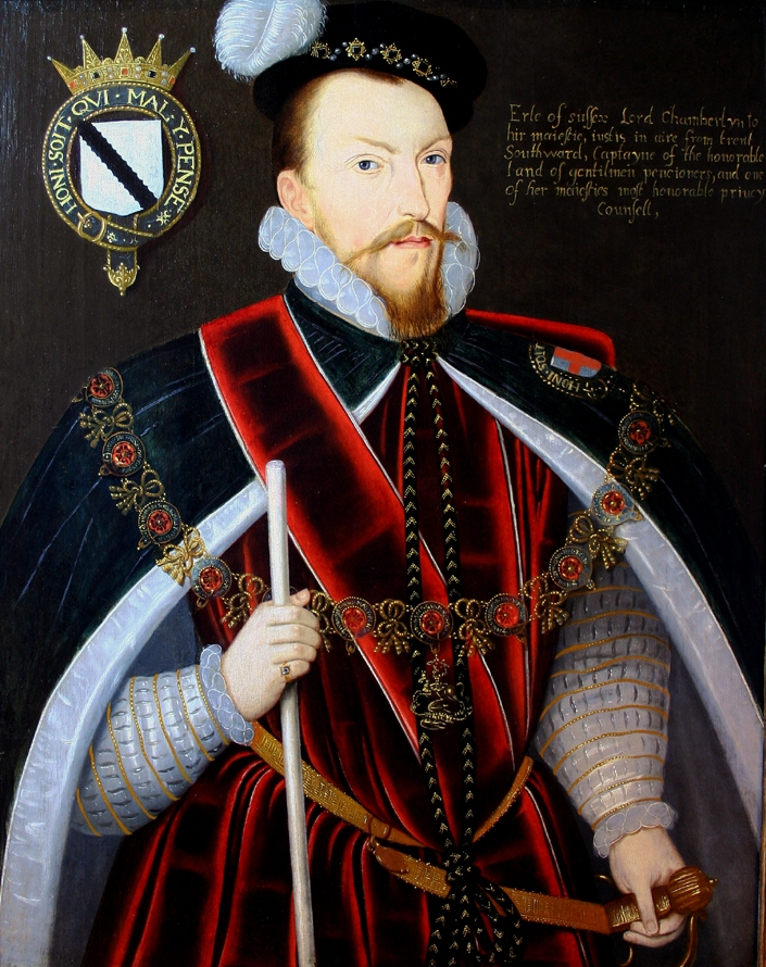 Thomas Radclyffe, 3rd Earl of Sussex, English nobleman and Lord Chamberlain to Queen Elizabeth I, in Garter Robes.